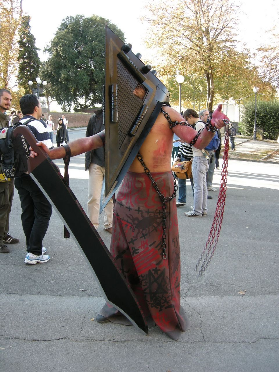 Cosplayer of Pyramid Head from Silent Hill at Lucca Comics & Games 2007.